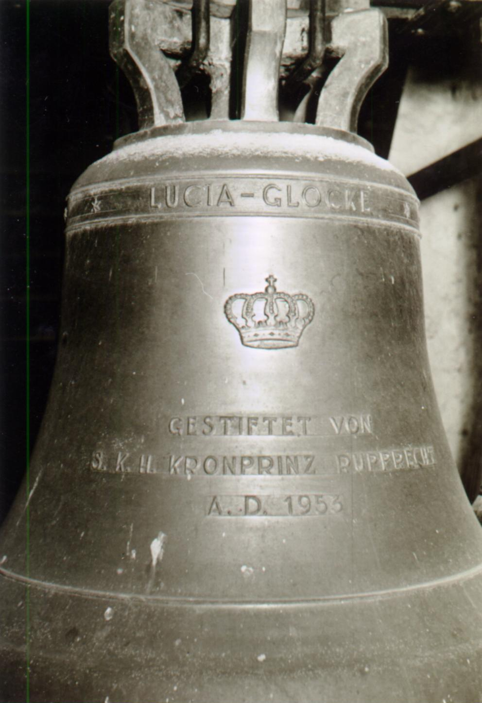 The Lucia Bell at Zell-Neuburg, donated by Crown Prince Rupprecht of Bavaria in 1953.